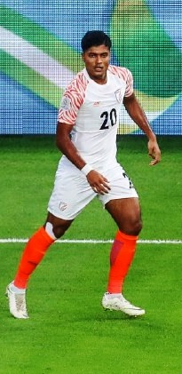 Pritam Kotal India National football team defender.